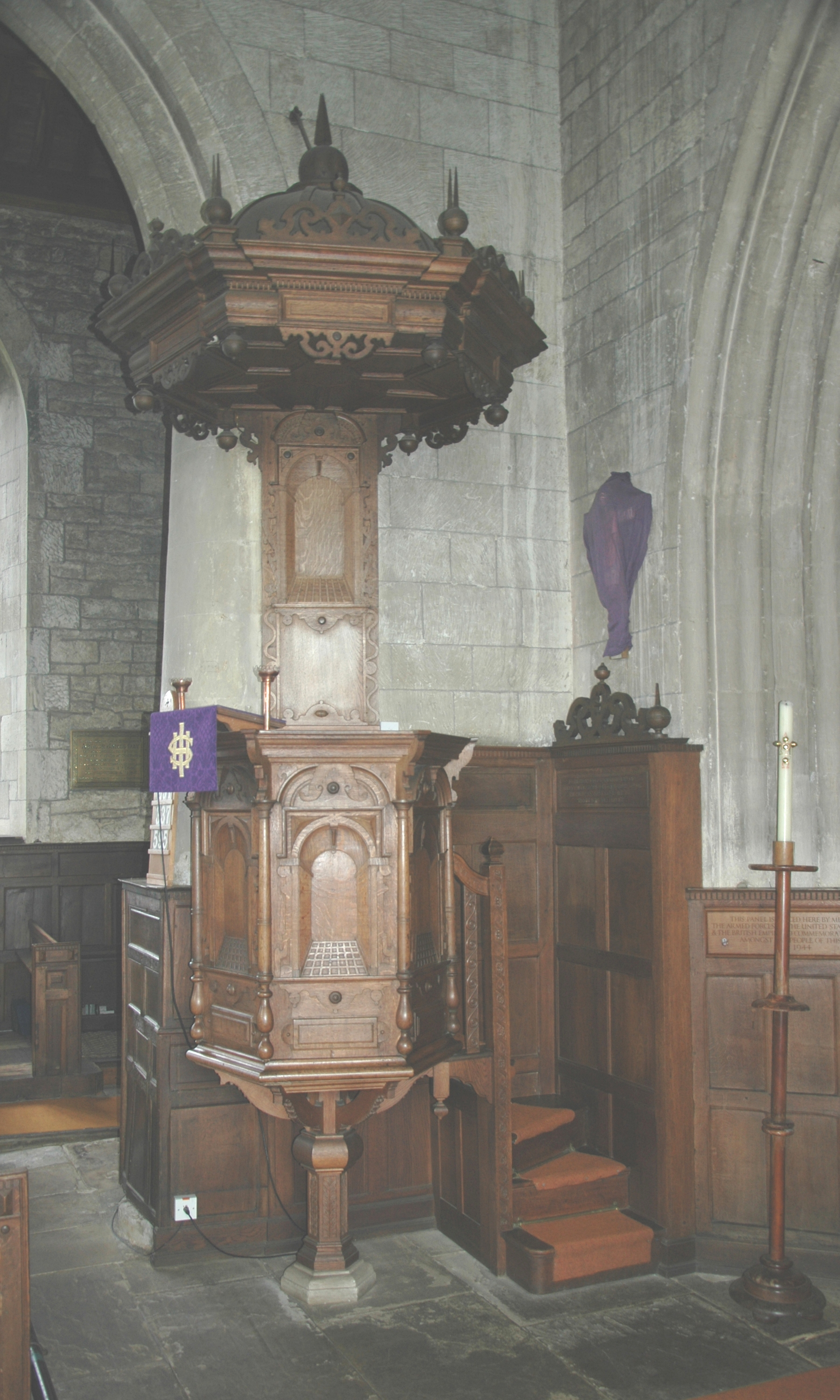 Church of England parish church of St Andrew, Shrivenham, Vale of White Horse: Jacobean wooden pulpit and tester